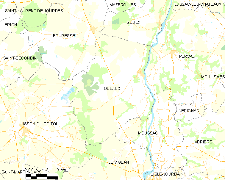 Map of French municipality Queaux